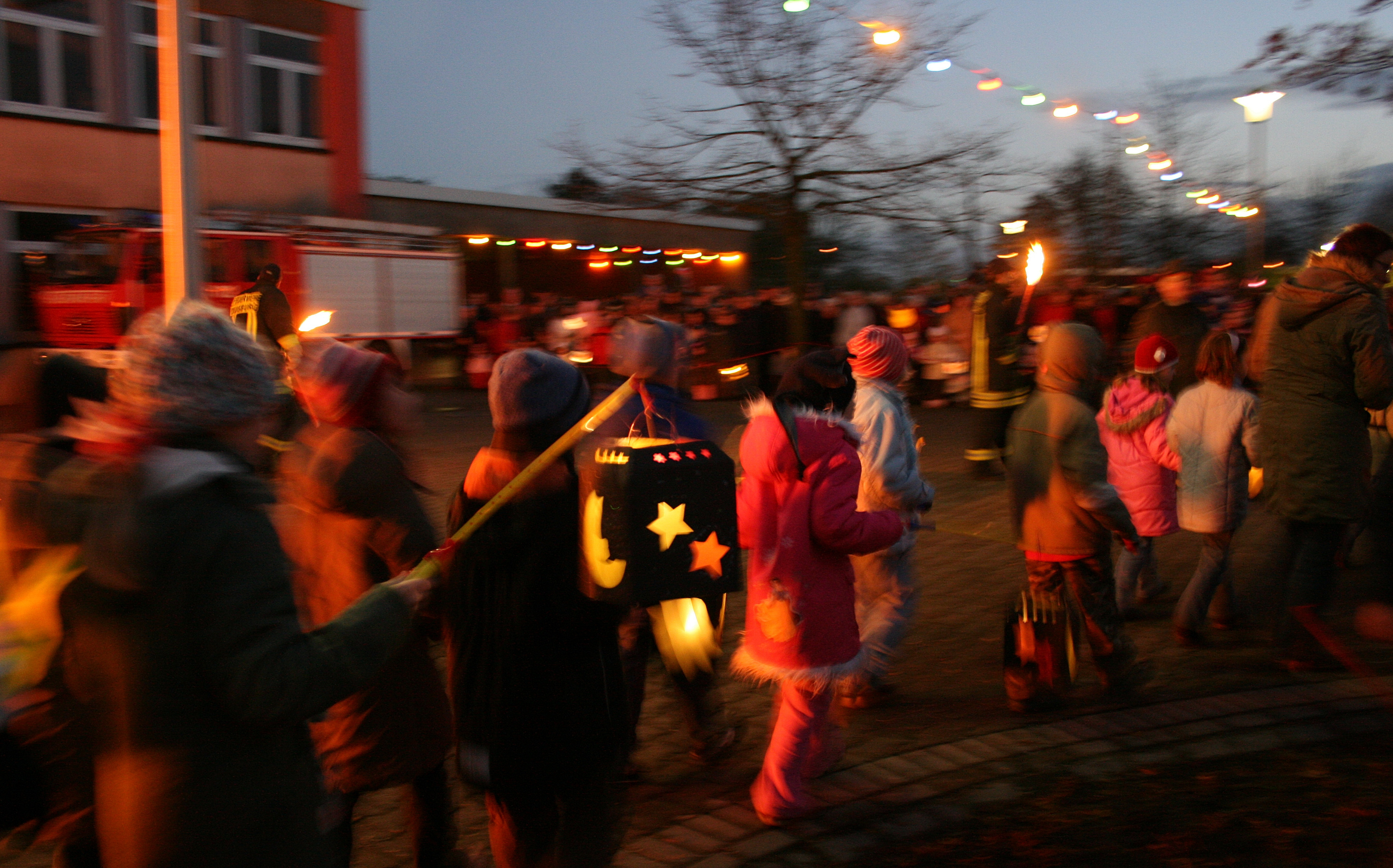 St. Martin's move in Duisburg-Mündelheim